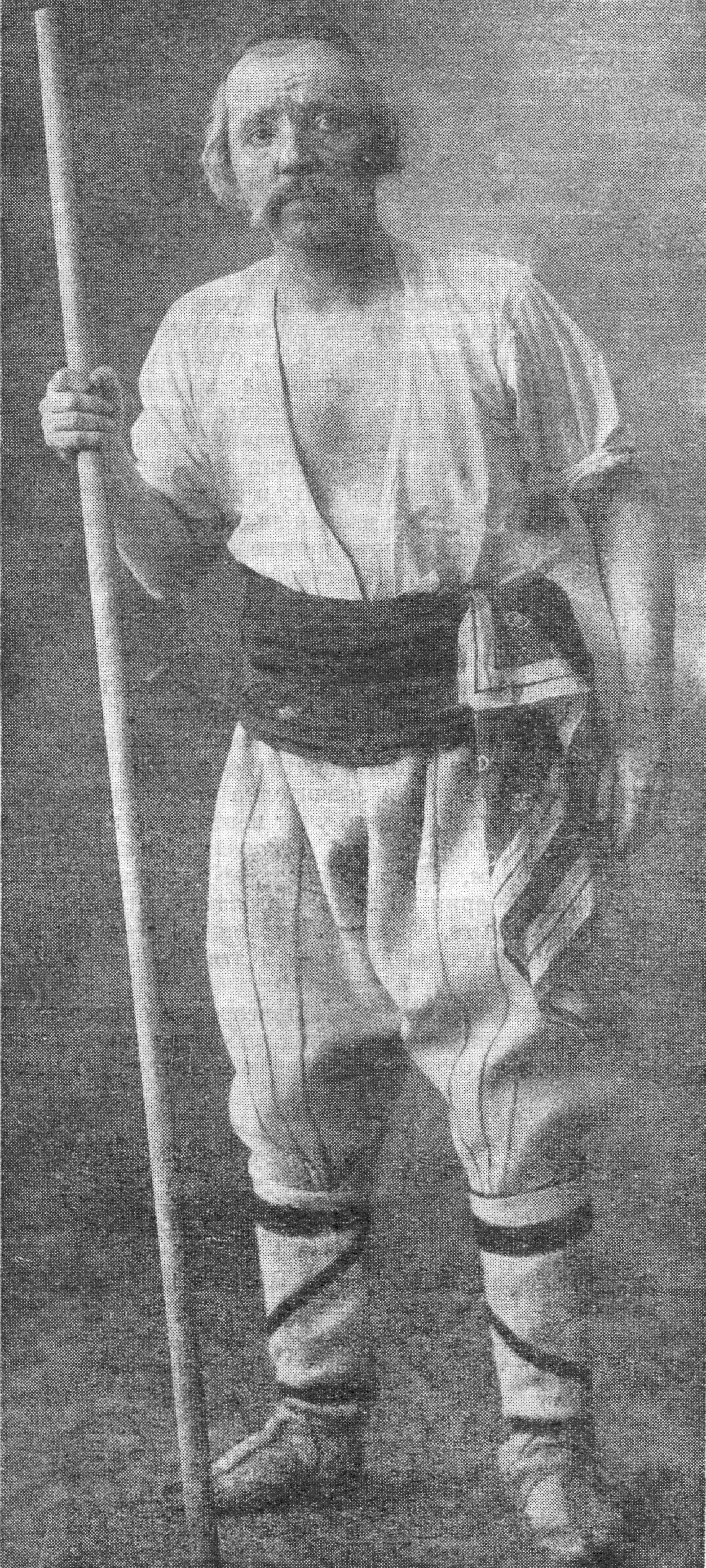 Bulgarian opera singer Ivan Vulpe (1876-1929)